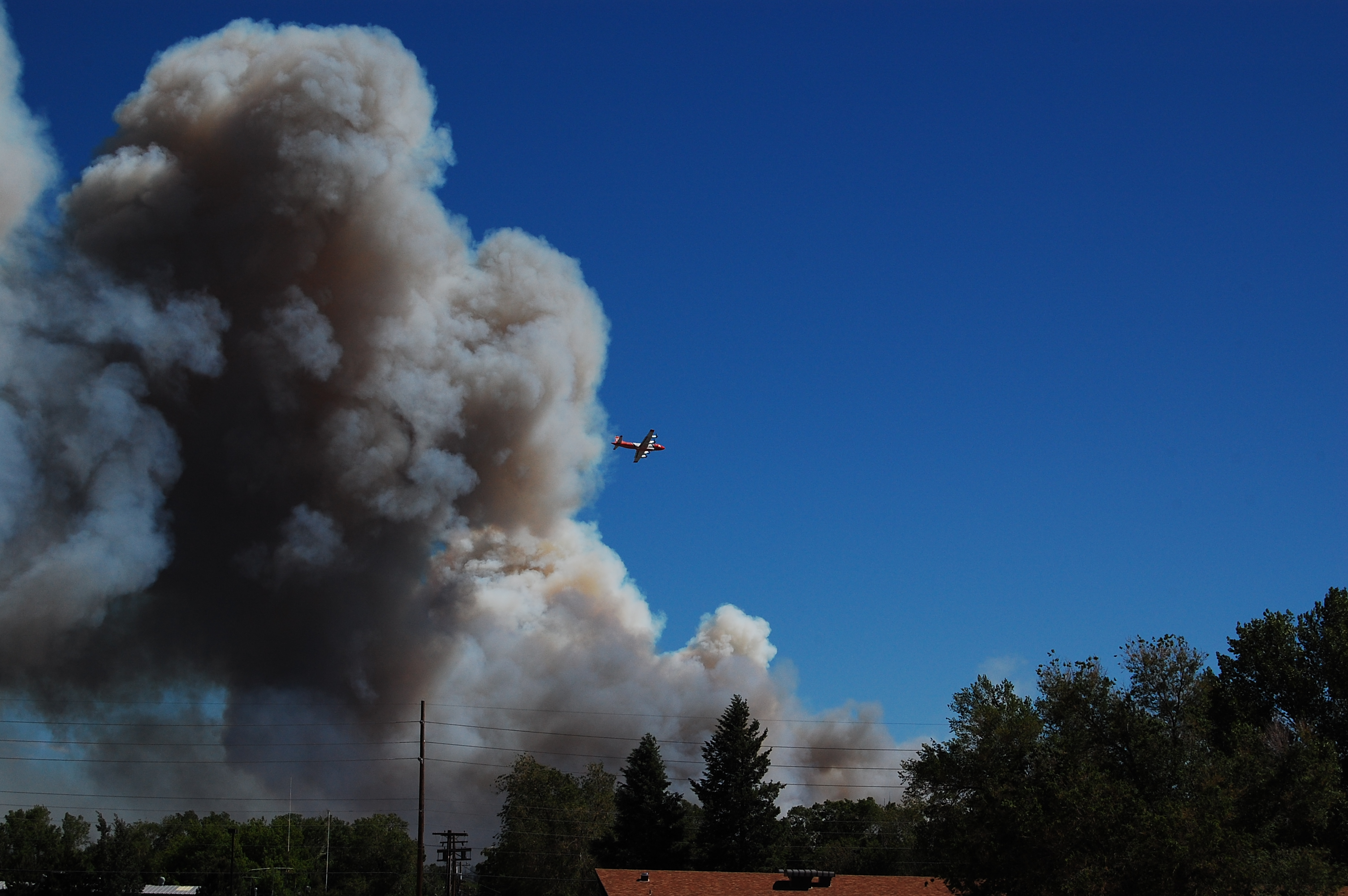 Air support at the Hardy wildfire